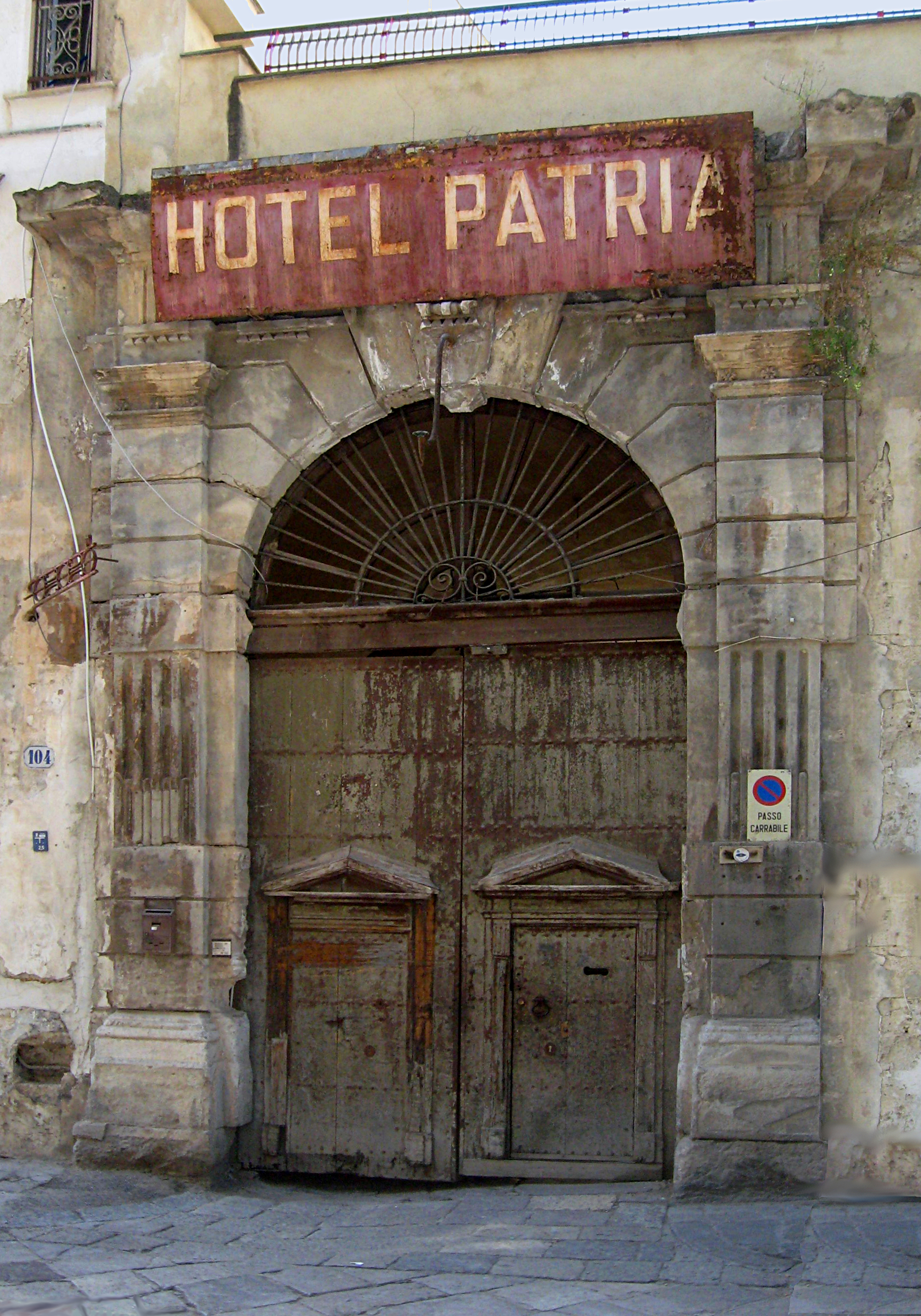 A closed hotel in Palermo - Italy